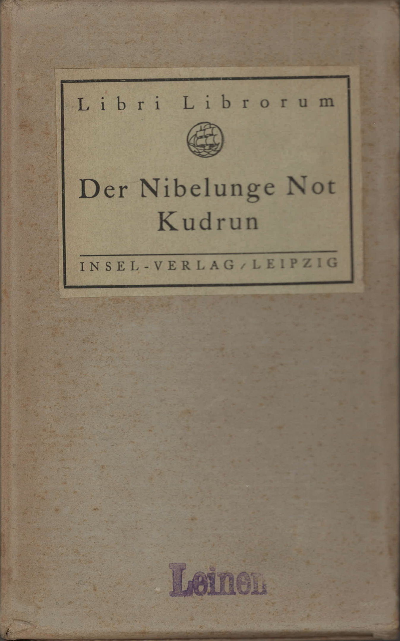 Slipcase for the "Nibelunge Not", Insel Verlag